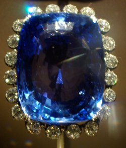 Logan Sapphire, National Museum of Natural History, Washington DC